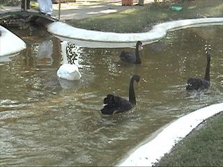 Photo taken by author himself